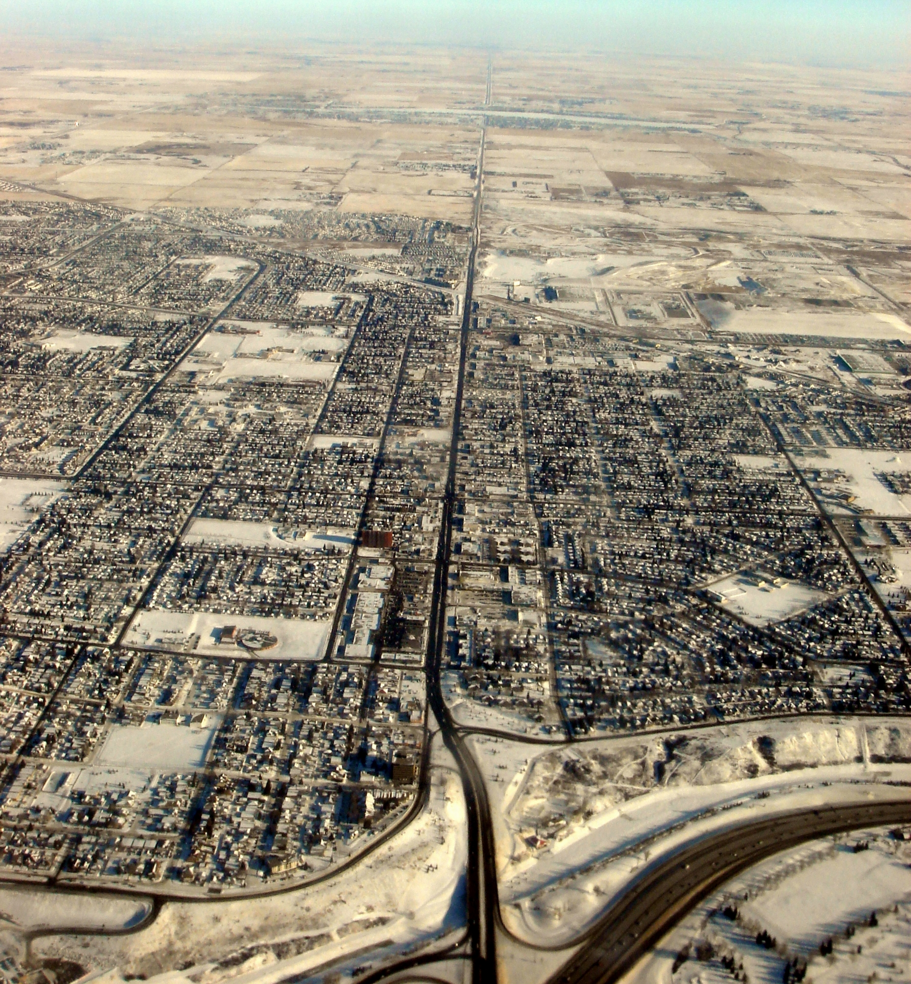 Aerial view of International Avenue, Calgary, Alberta, Canada, with the neighbourhoods of Albert Park, Forest Lawn, Penbrooke Meadows at the left and Dover Glen, Dover and Elliston Park at the right, Chestermere in the distance